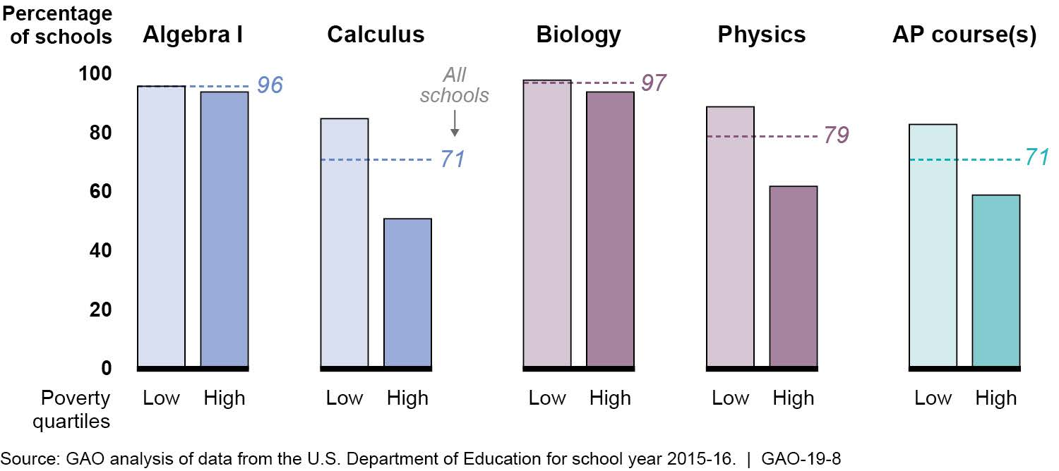 This image is excerpted from a U.S. GAO report: K-12 EDUCATION: Public High Schools with More Students in Poverty and Smaller Schools Provide Fewer Academic Offerings to Prepare for College Note: The low poverty quartile represents those schools with 0-24.9 percent of students eligible for free or reduced-price lunch (FRPL), and the high poverty quartile represents those schools with 75-100 percent eligible for FRPL.